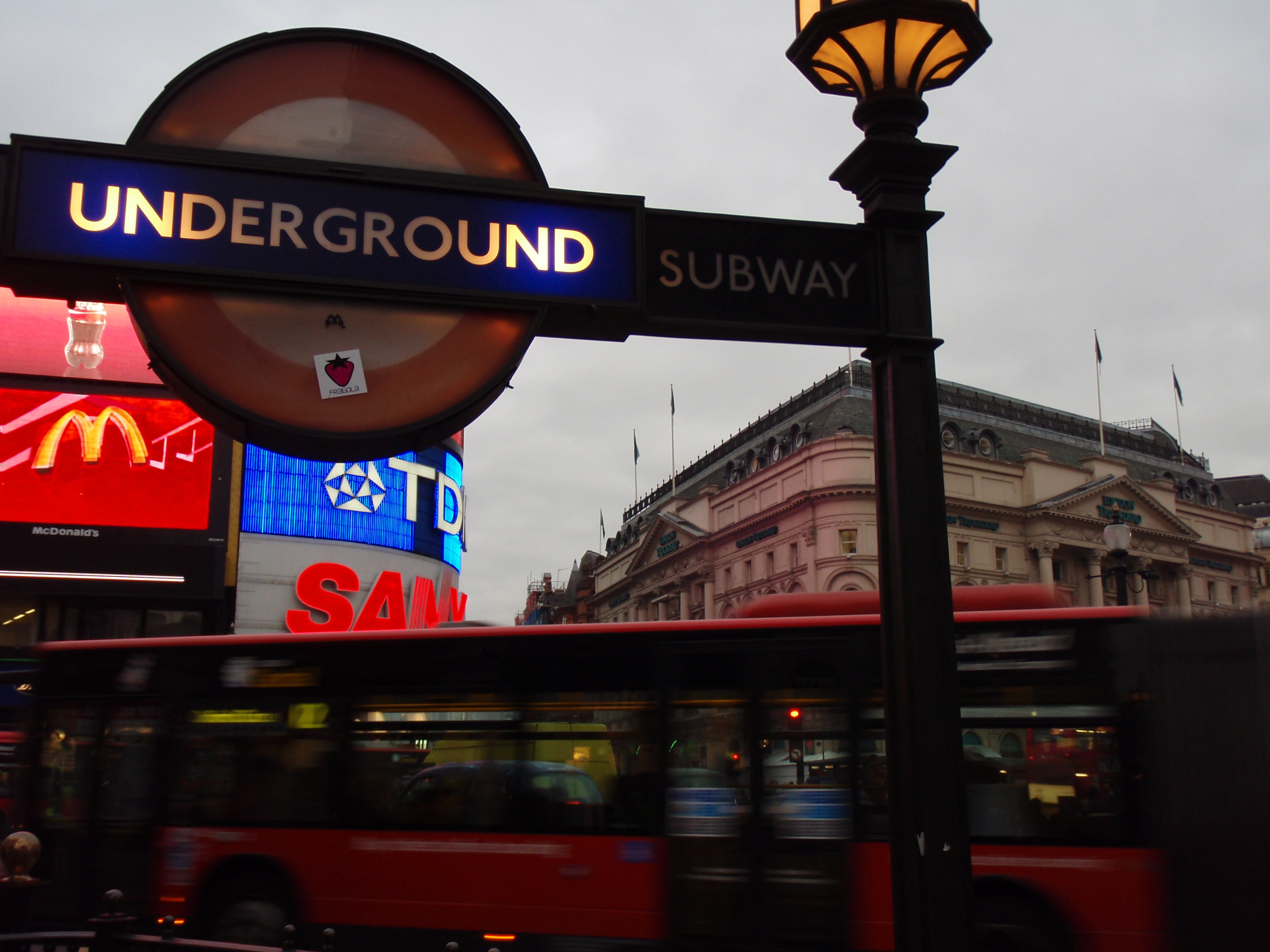 A London Underground roundel at one of the entrances to Piccadilly Circus tube station. Piccadilly Circus itself is in the background.